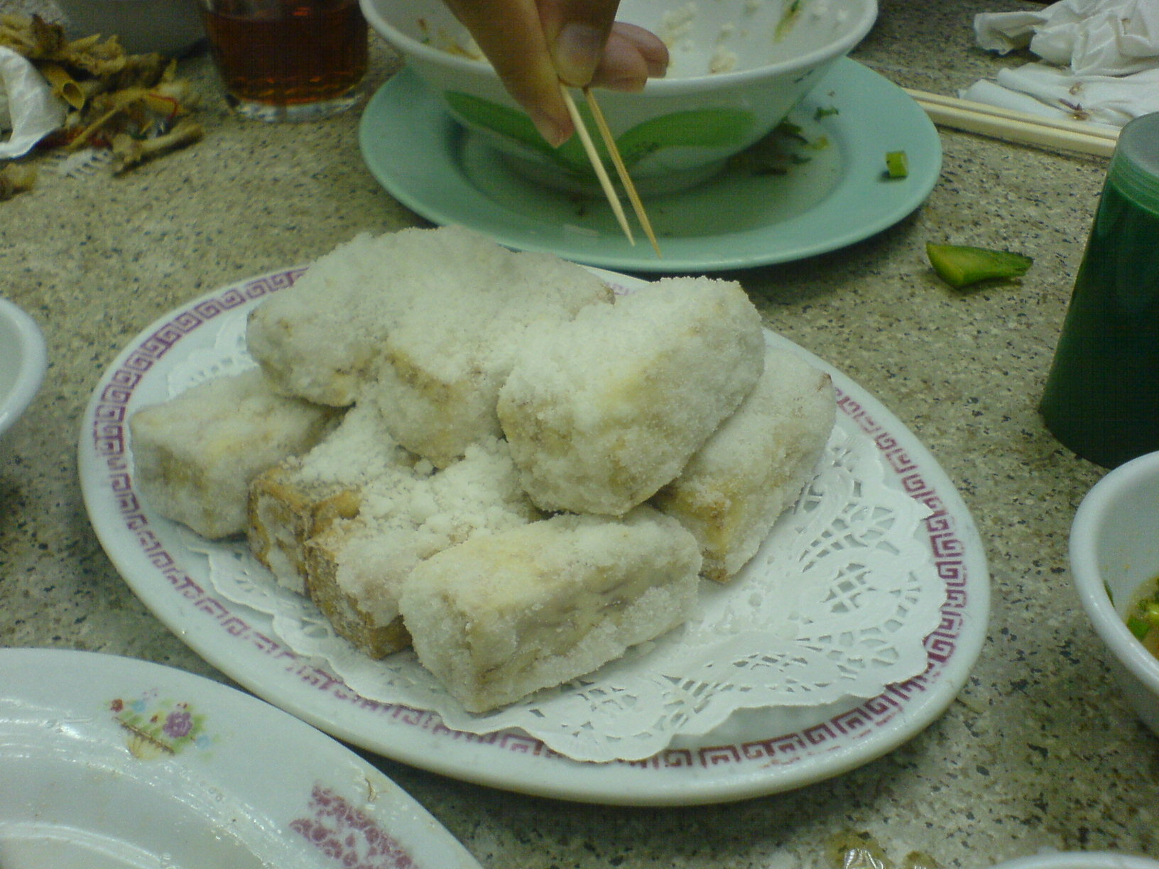 潮州菜甜品：反砂芋 Sugar glazed Taro, a dessert in Chiuchow cuisine